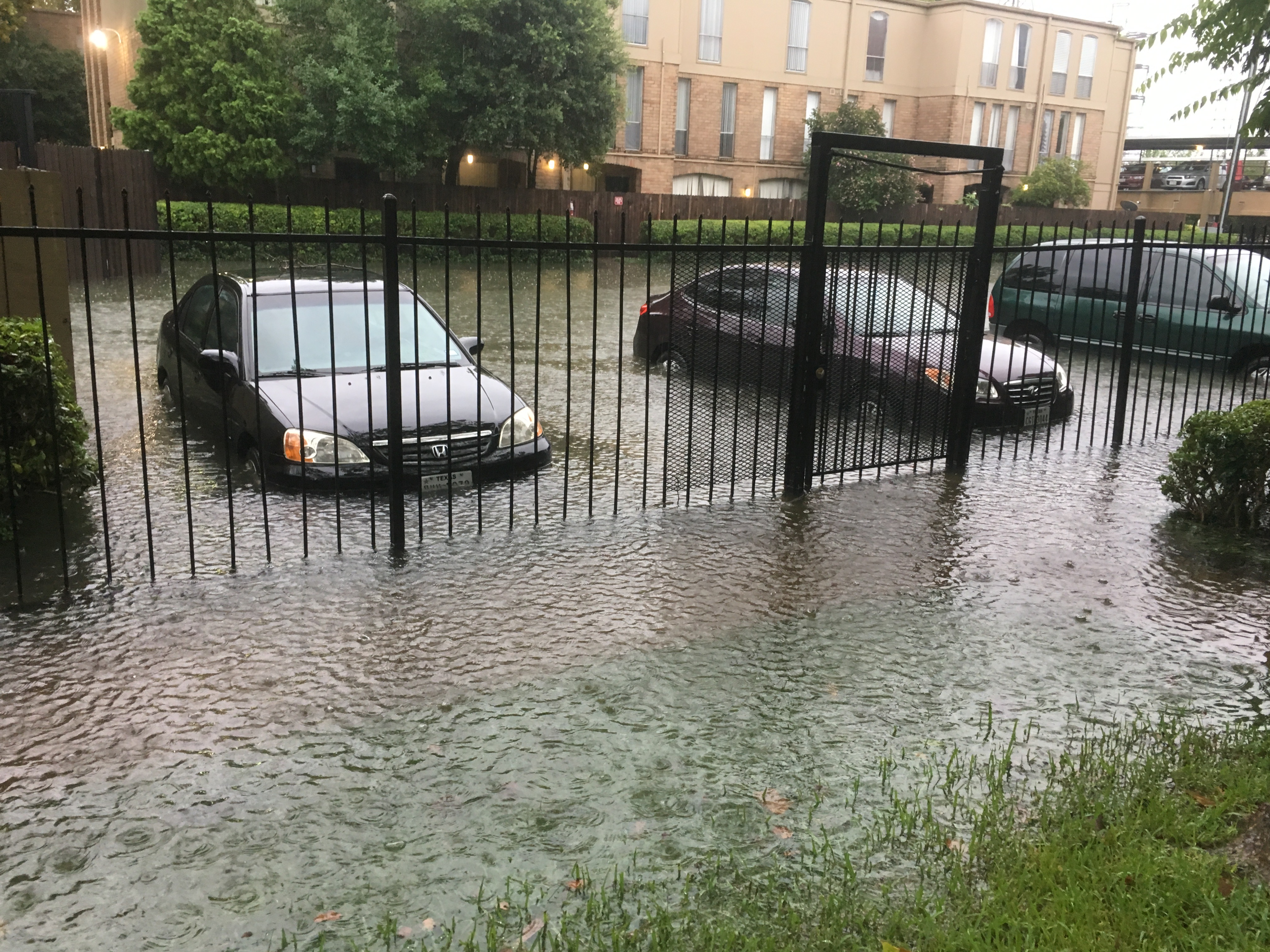 Hurricane/Tropical Storm Harvey in Houston - August 27 2017 AM Hurricane/Tropical Storm Harvey in Houston - August 27 2017 AM The garage floods easily, but the ground here is still high enough not to be too worried. Until the boiler floods out and we have no hot water. Or the transformer shorts out, and we're in the dark. Oh, and the access street is a lake, and the sidewalks are impassible. Yeah, that's not a good place to park.